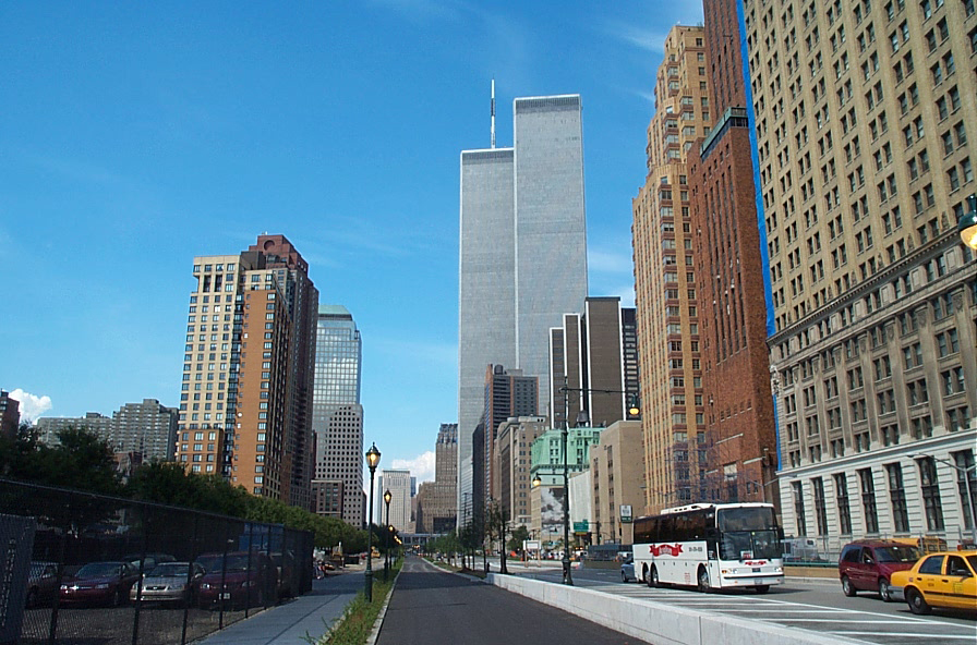 The Twin Towers of the World Trade Center in Manhattan, New York City, New York, in July 2001, and its surrounding buildings.